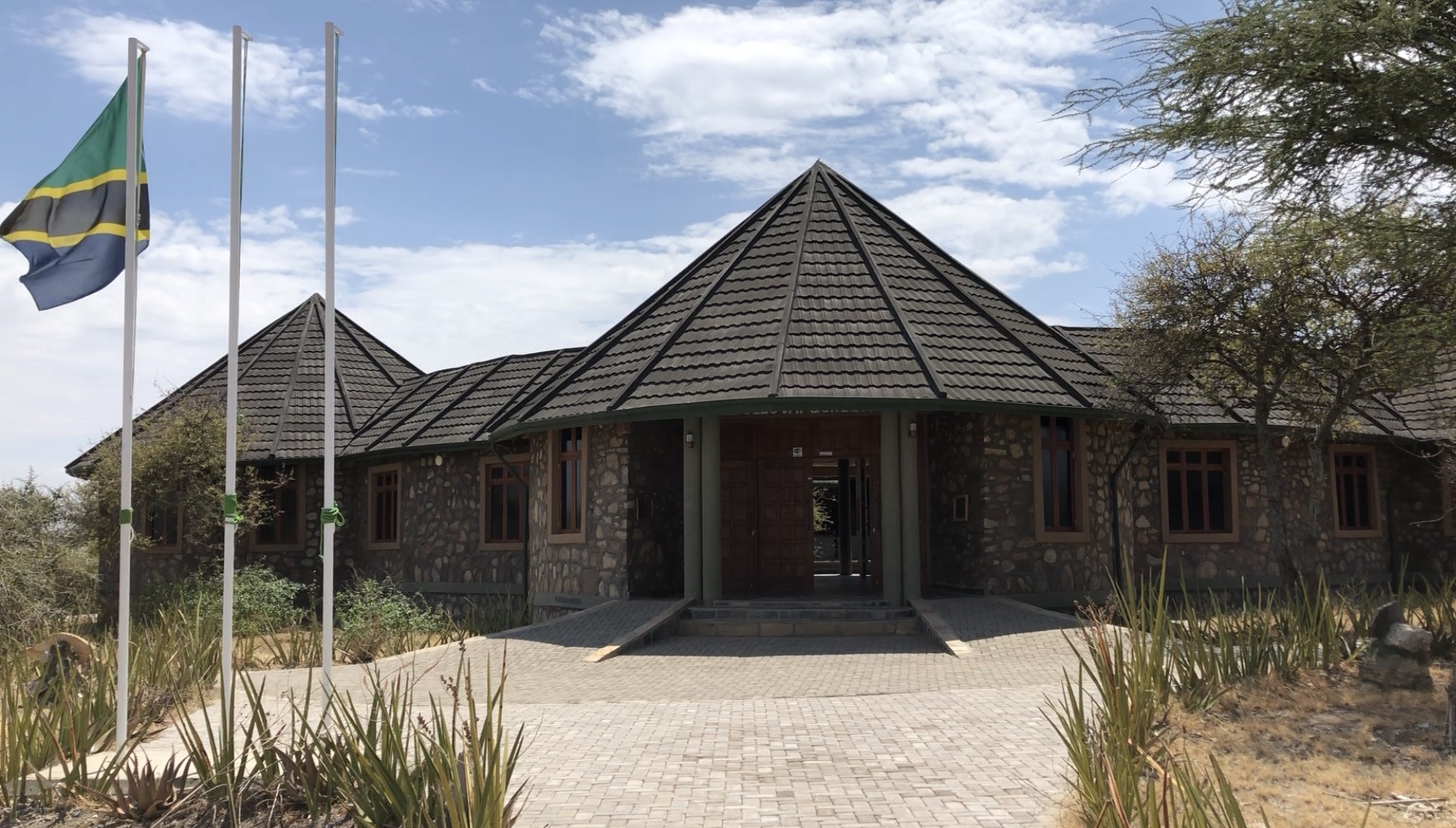 The view of the front of the new Olduvai Gorge Museum.